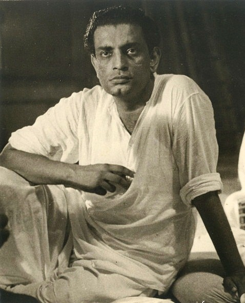 Cropped image of Satyajit Ray with Ravi Sankar music recording for Pather Panchali (1955)